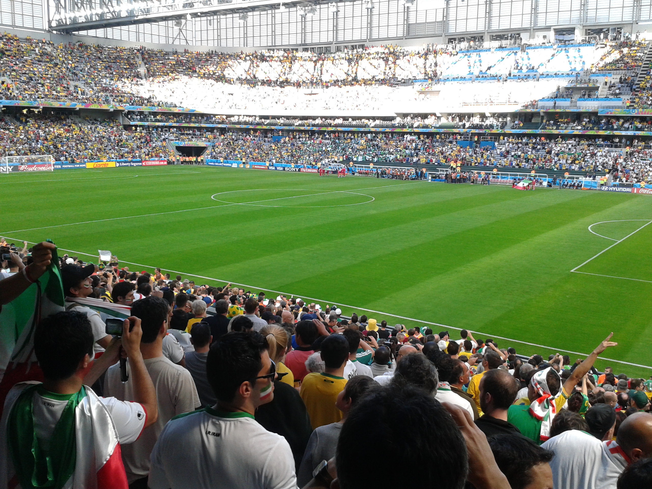 Iran and Nigeria match at the FIFA World Cup (2014-06-16)